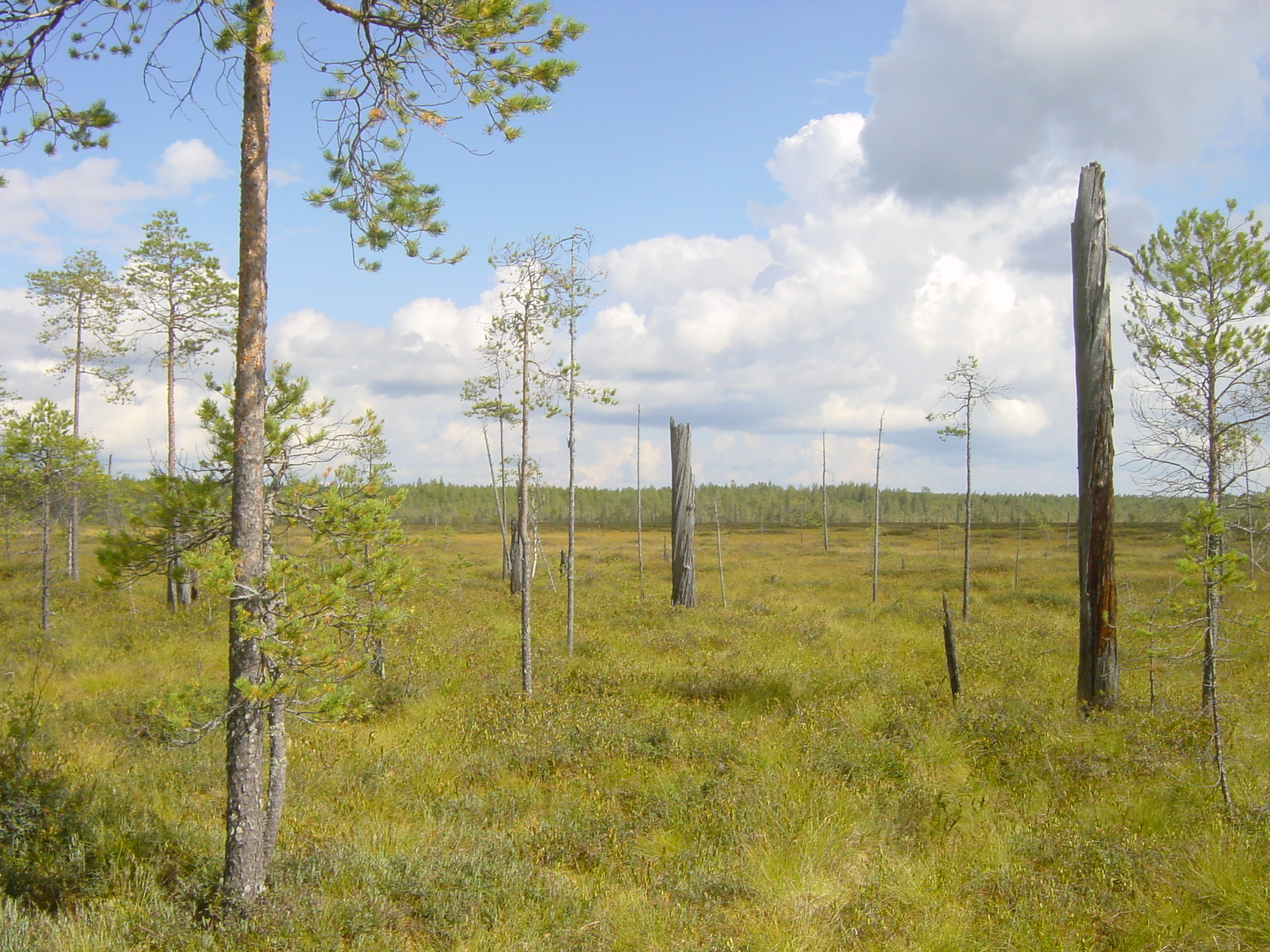 Central swamp in the Patvinsuo national park in Finland.